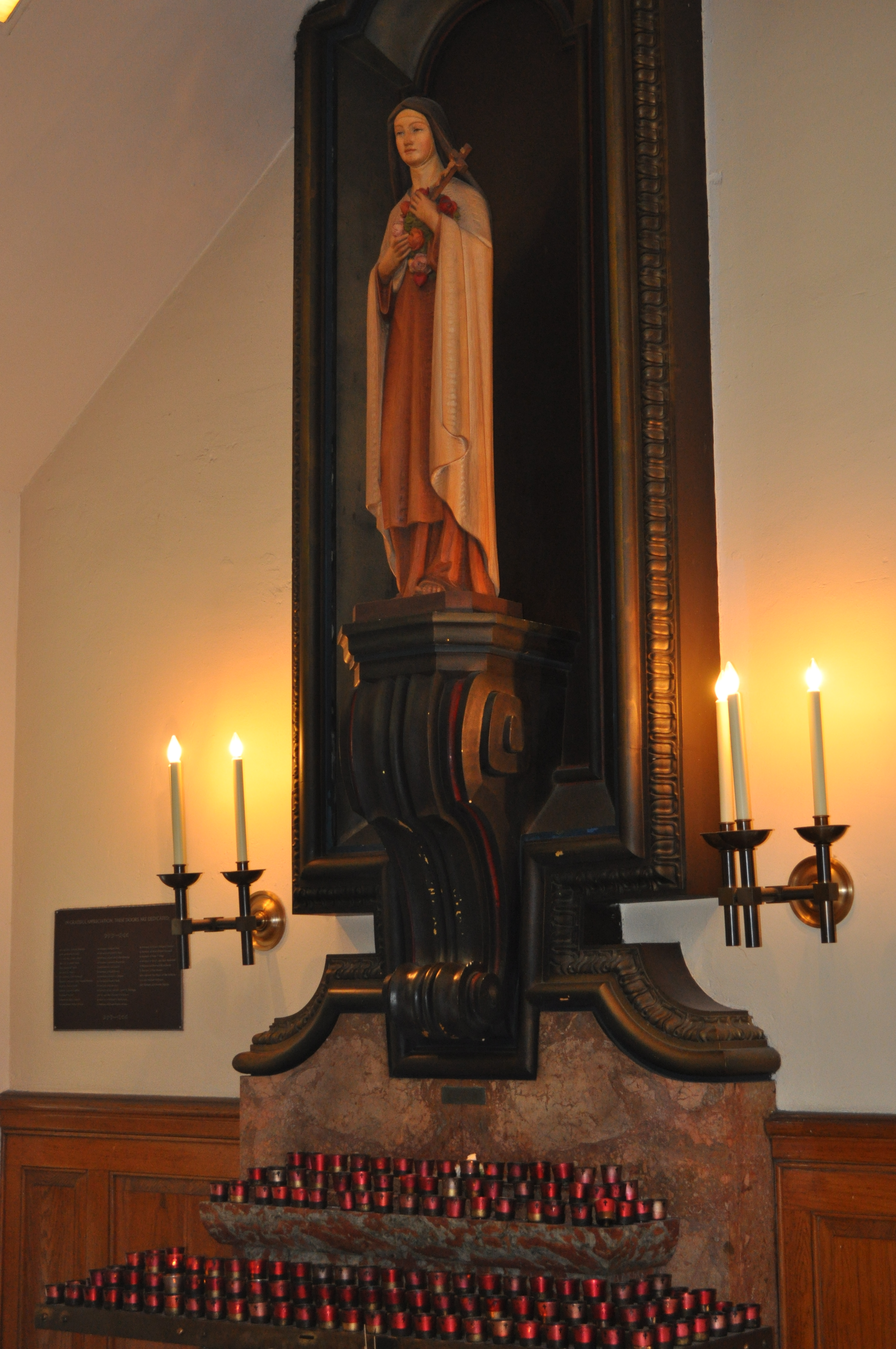 A statue of St. Therese of Lisieux in Church of the Little Flower, Coral Gables, Florida